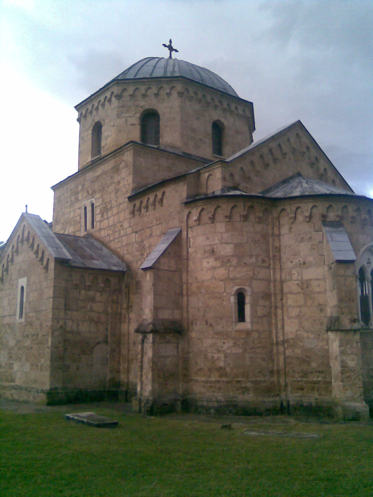 Monastery Gradac, near Raska, Serbia